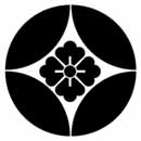 Hanawa